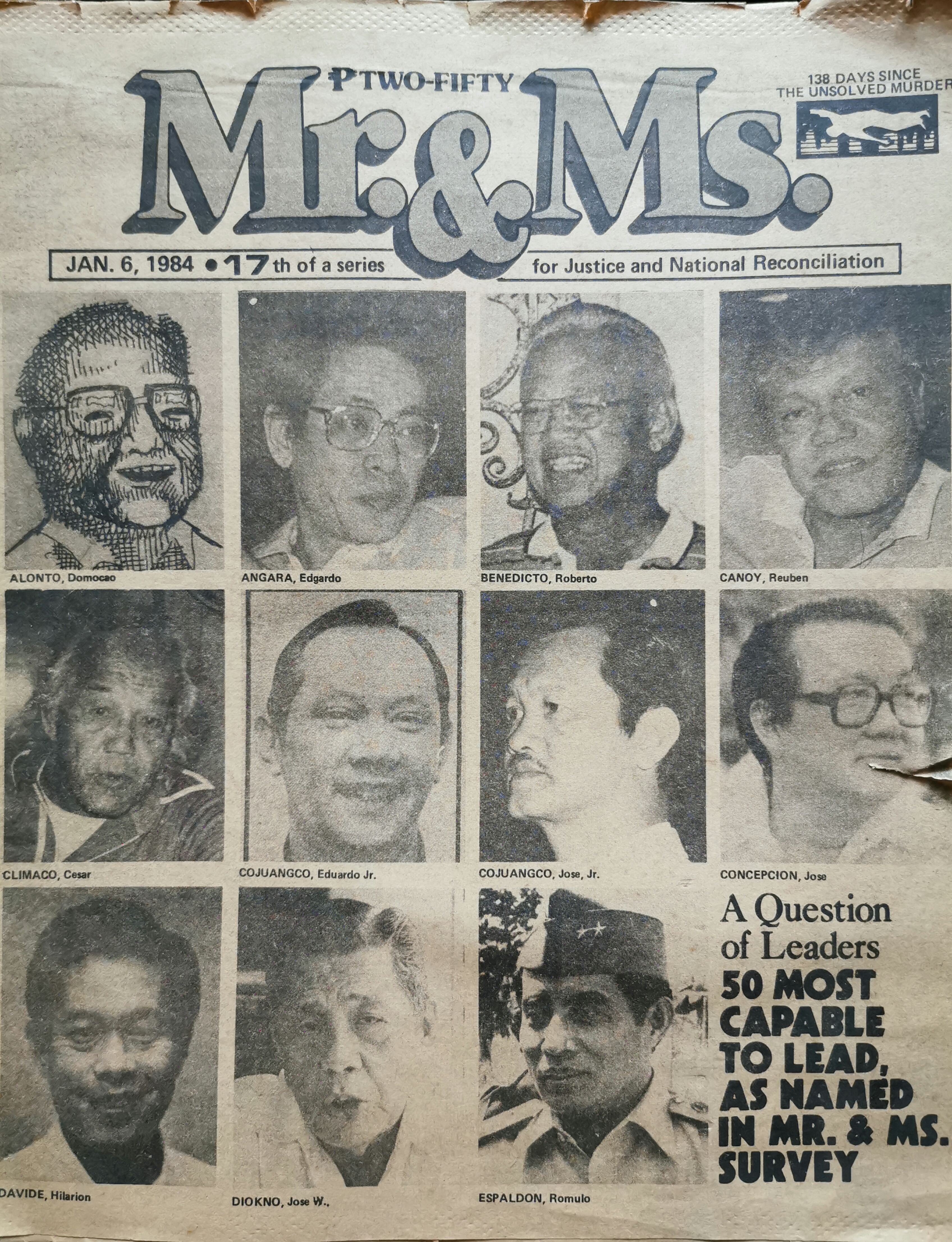 Mr. & Ms. tabloid magazine (January 6, 1984 issue). A Question of Leaders: 50 Most Capable To Lead, as named in Mr. & Ms. Survey.